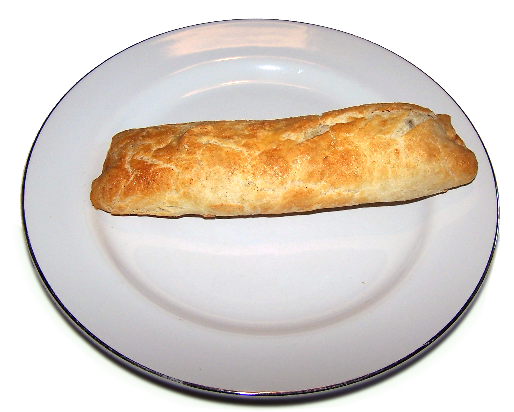 A Bedfordshire Clanger on a plate.